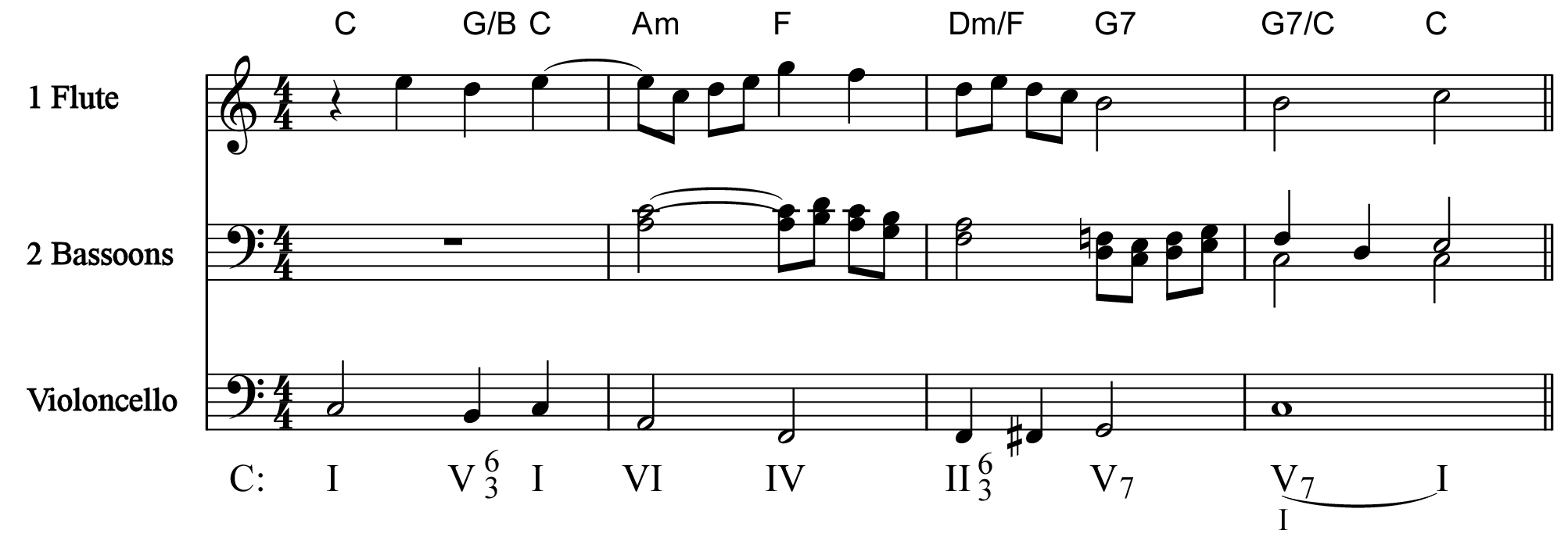 Harmonization in part writing with sectional bassoons.